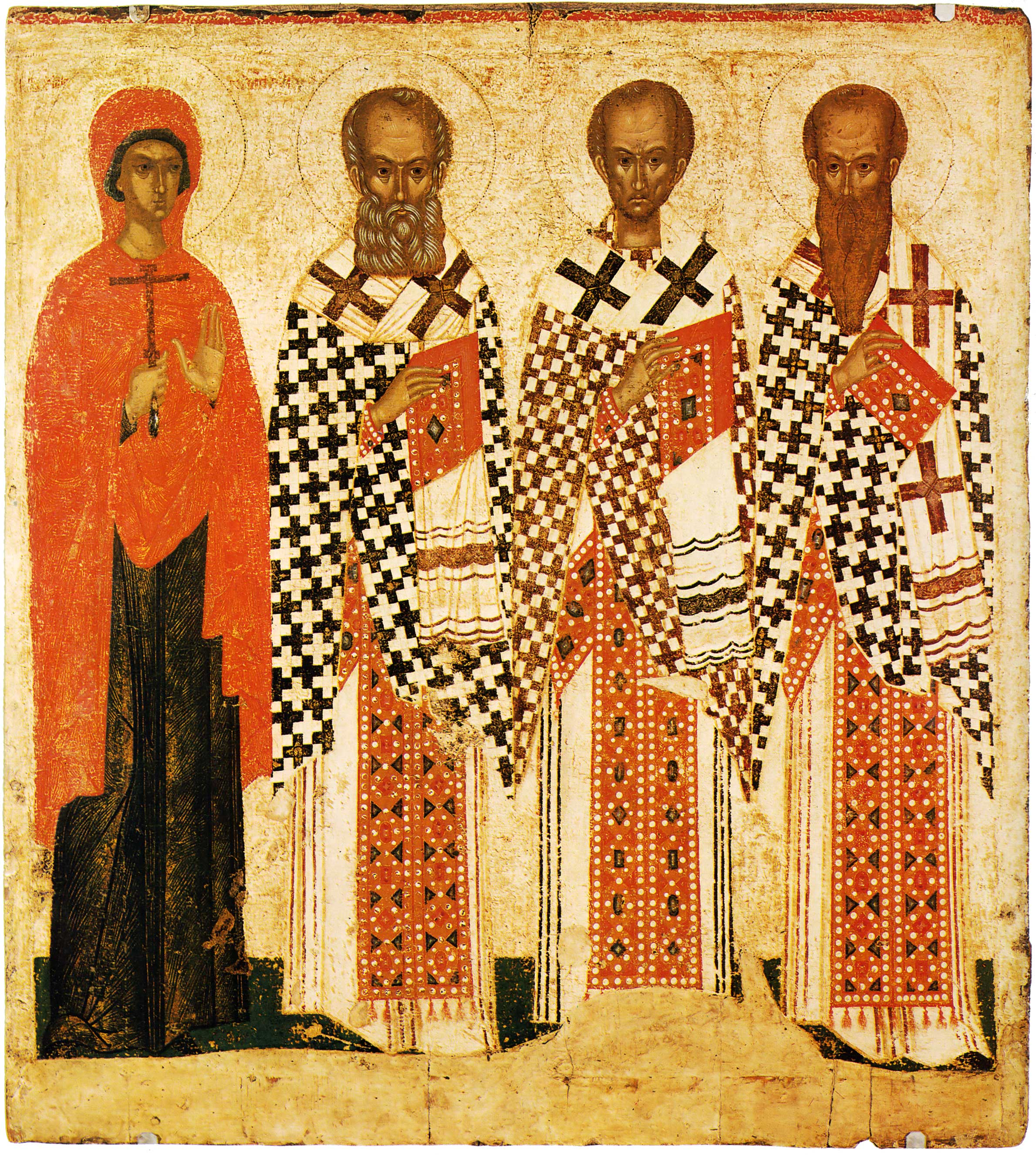 Saints Paraskeva, Gregory of Nazianzus, John Chrysostom and Basil of Caesarea.